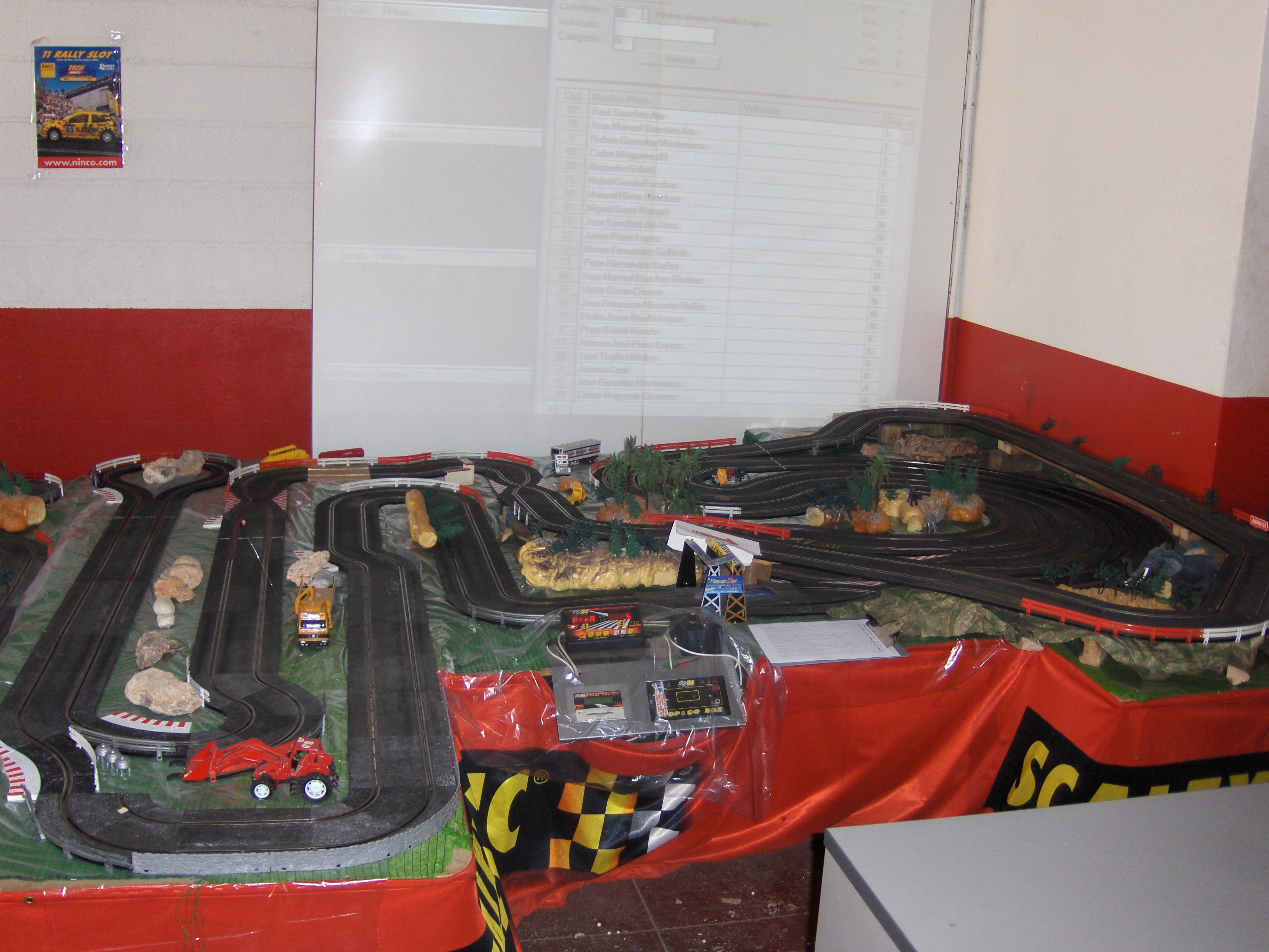 slot car track